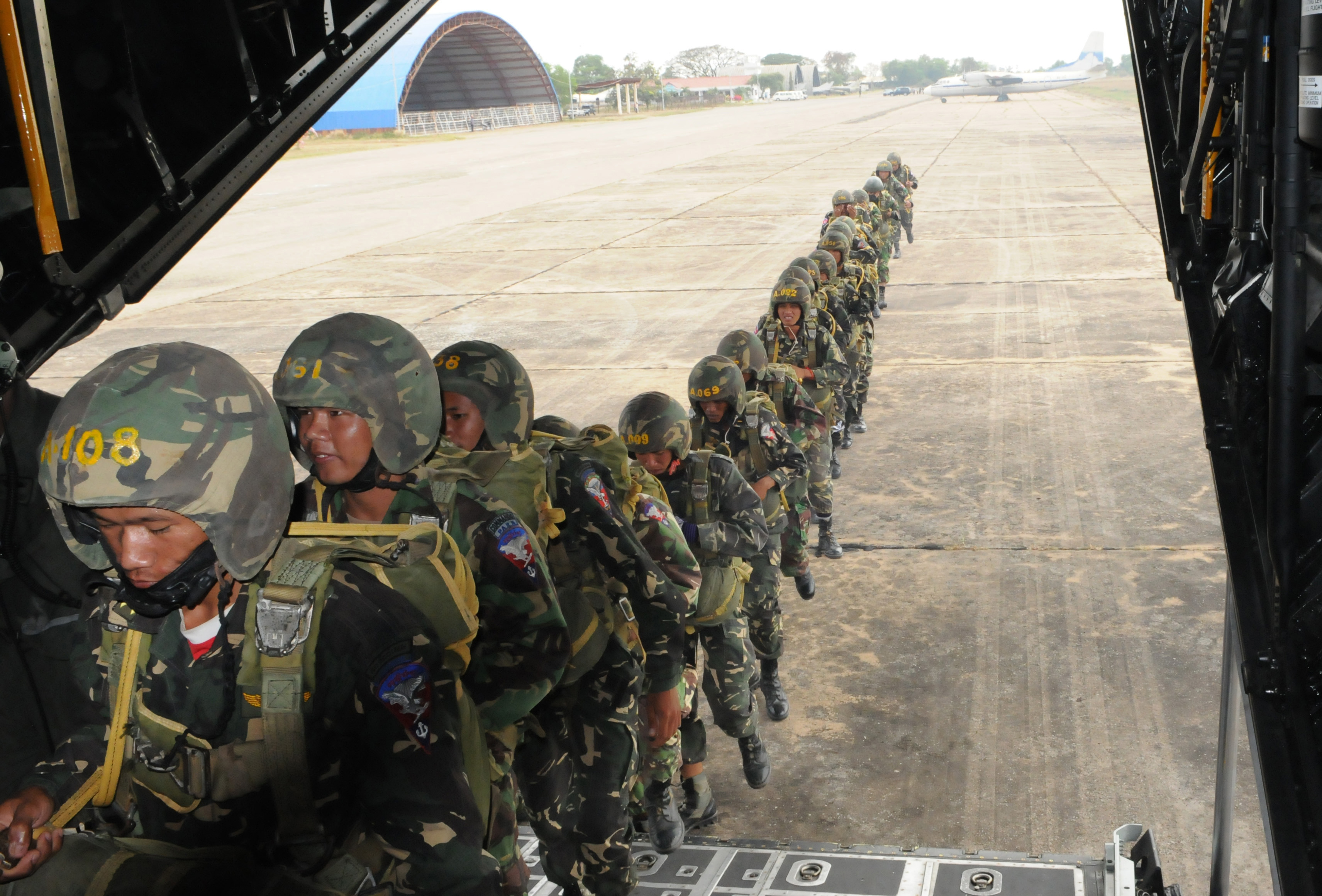 Royal Cambodgian Armed Forces, National Counter-Terrorism Special Forces, into a MC-130P. 22 février 2010